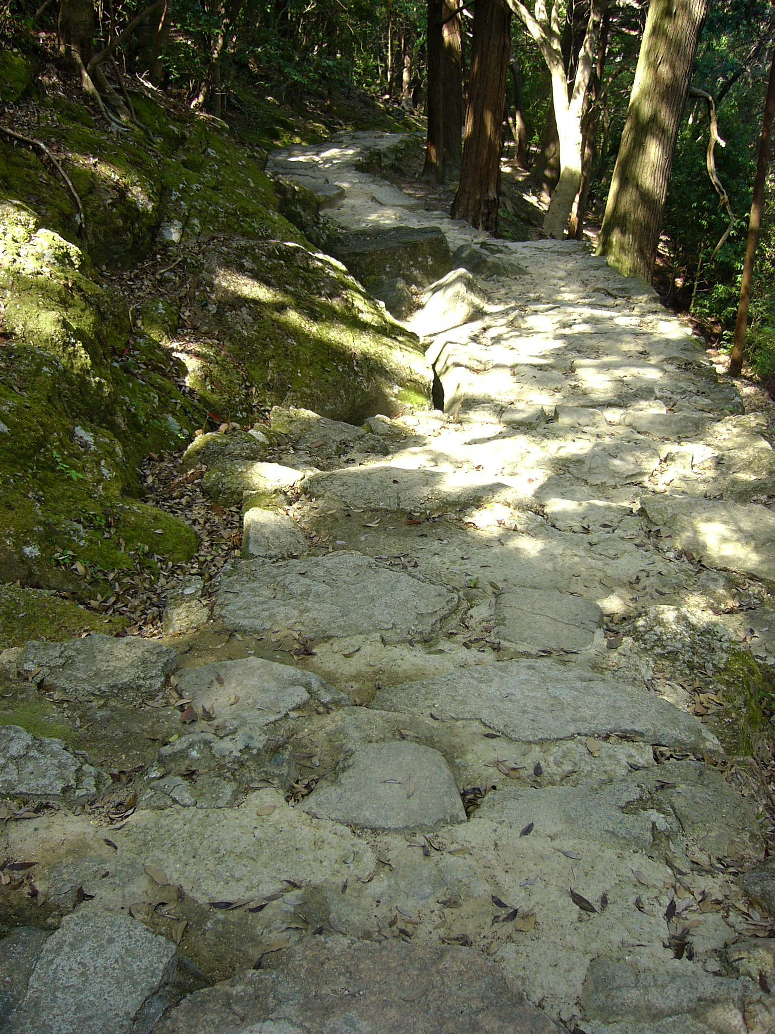 Kamikura-jinja, Shingu, Wakayama prefecture, Japan